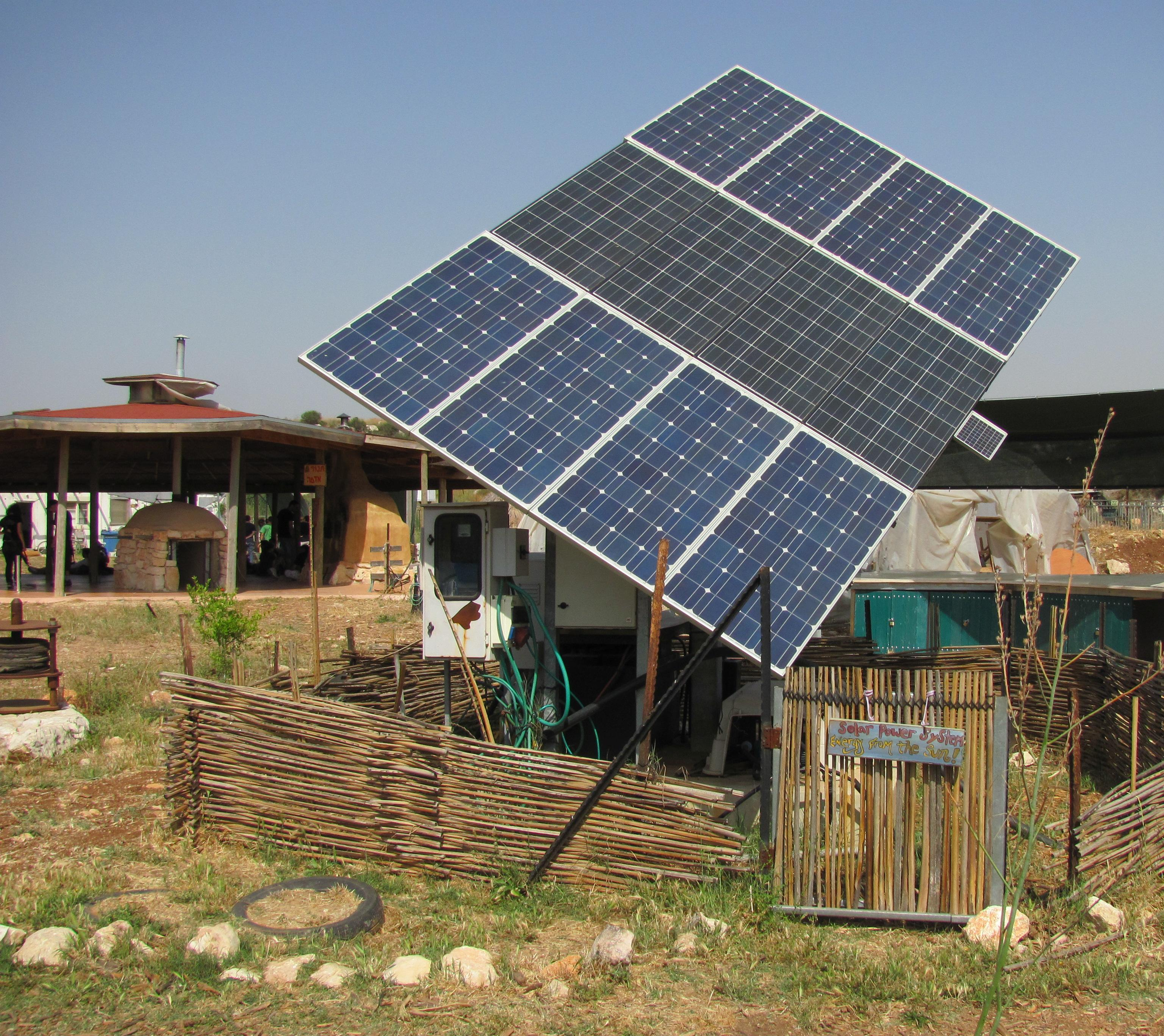 A solar panel used at the Ecological farm near Modi'in, Israel.